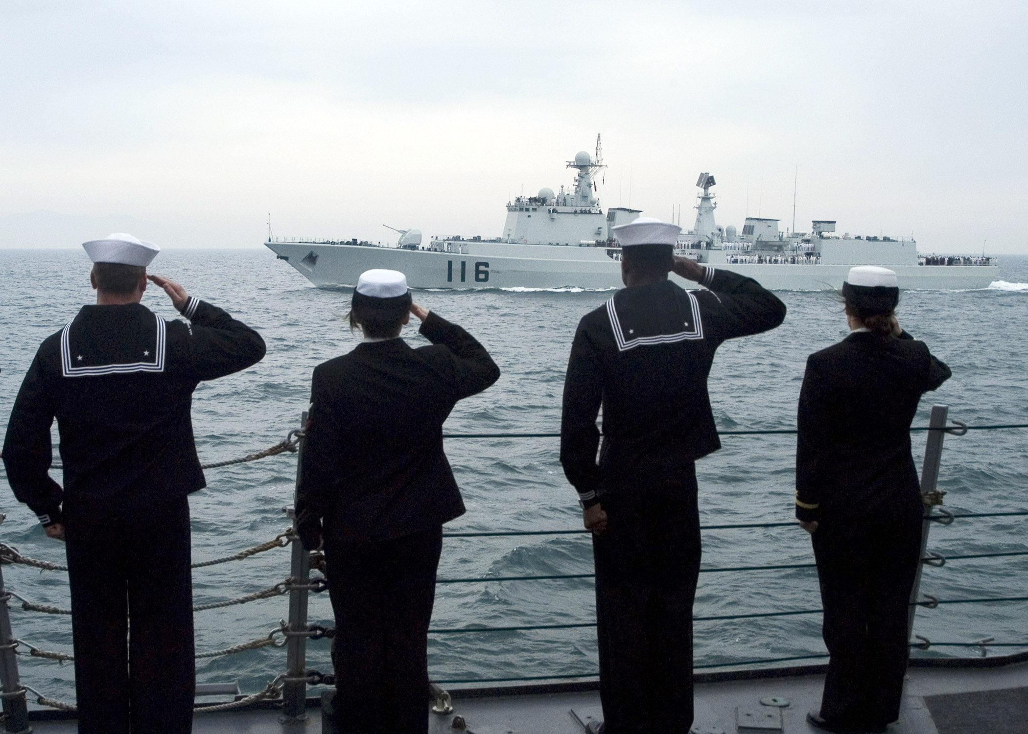 YELLOW SEA (April 23, 2009) Sailors assigned to the guided-missile destroyer USS Fitzgerald (DDG 62) man the rails and render honors to the People's Liberation Army Navy Luzhau-class guided-missile destroyer Shijiahuang (DDG 116) during the International Fleet Review. Fitzgerald and 21 warships from 15 nations took part in the review to help celebrate the 60th anniversary of the founding of the PLA Navy along with. (U.S. Navy photo by Mass Communication Specialist 2nd Class Matthew R. White/Released)